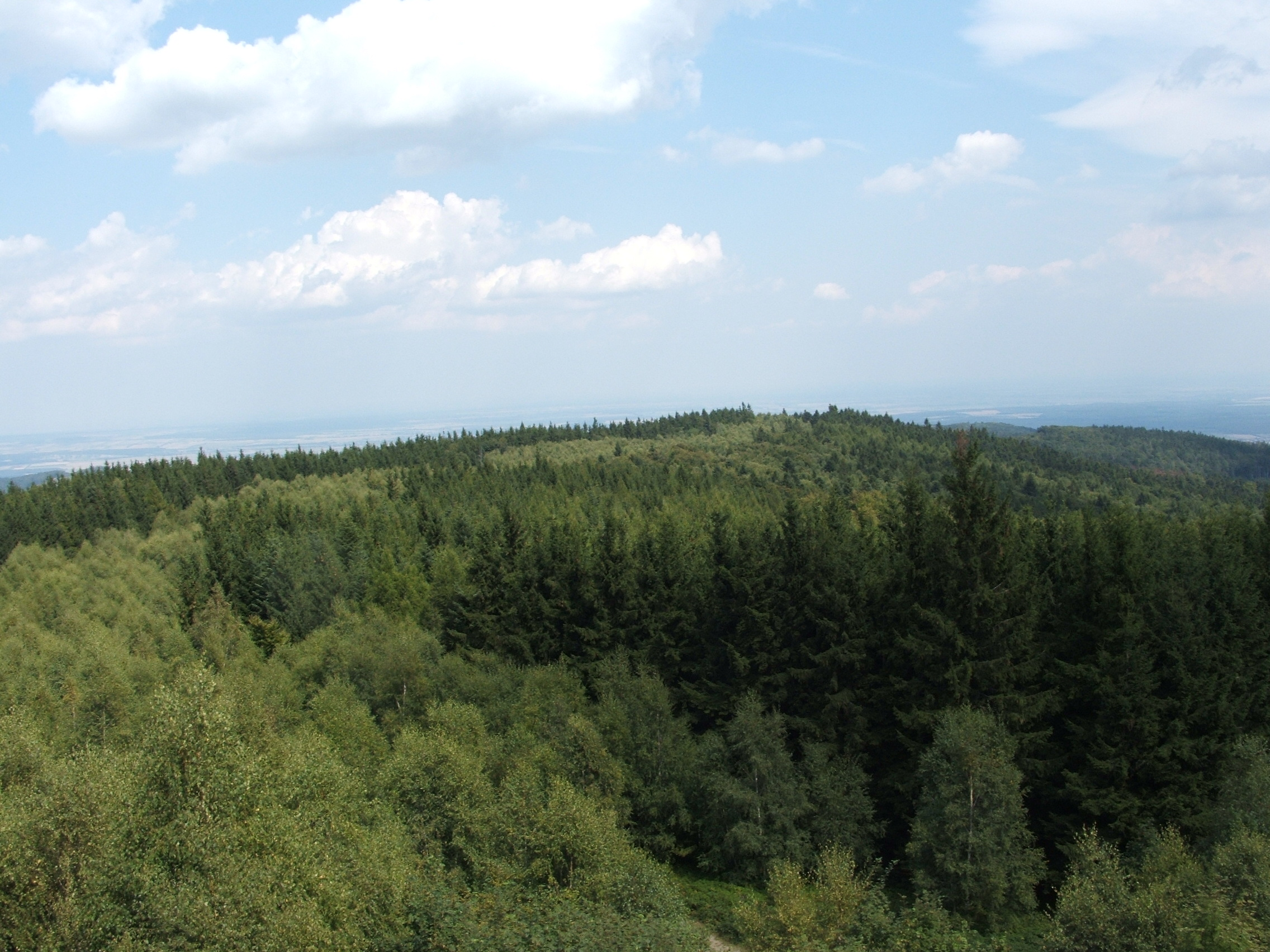 Although the peak of Geschriebenstein is in Austria, the forested mountain extends well into Hungary.